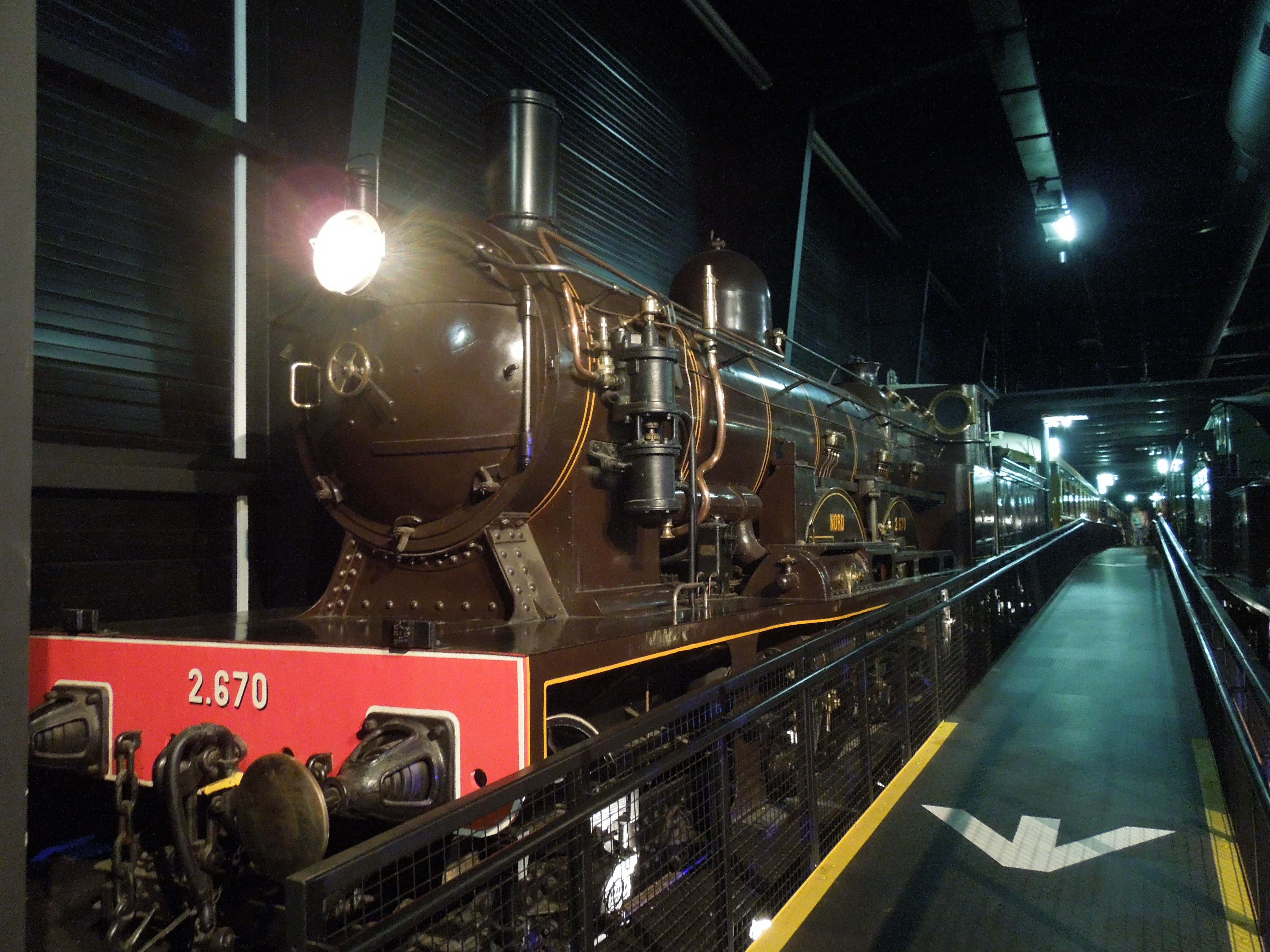 The Cité du train railway museum in Mulhouse